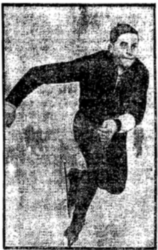 Wilhelm Sandner (1911-1984), German ice skater